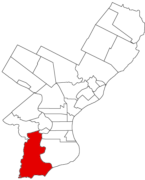 Map of Philadelphia County, Pennsylvania highlighting Kingsessing Township prior to the Act of Consolidation, 1854